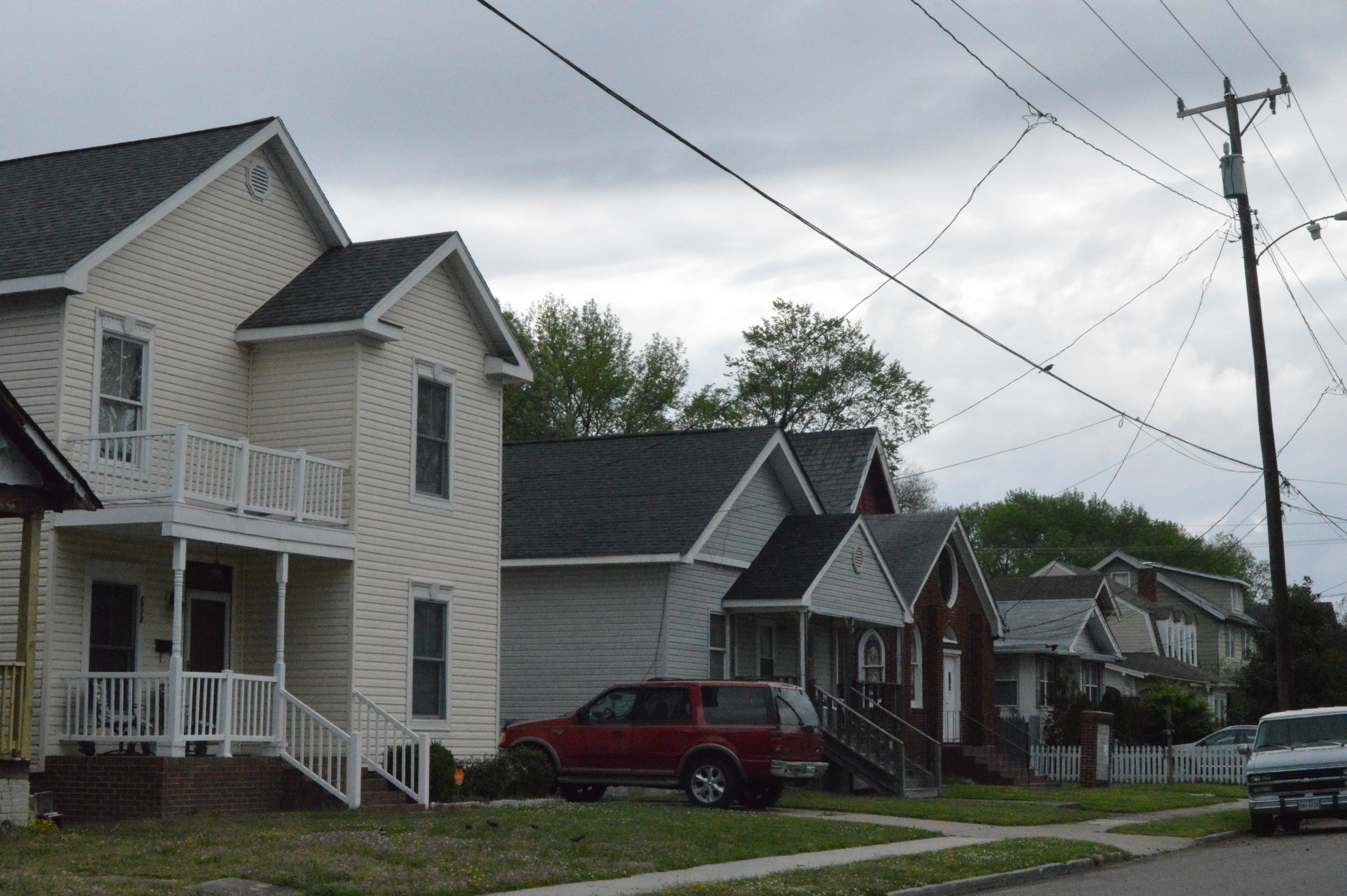 Houses on the northern side of Kimball Terrace west of the Norchester Avenue intersection in Norfolk, Virginia, United States. This block is part of the Chesterfield Heights Historic District, a historic district that is listed on the National Register of Historic Places.